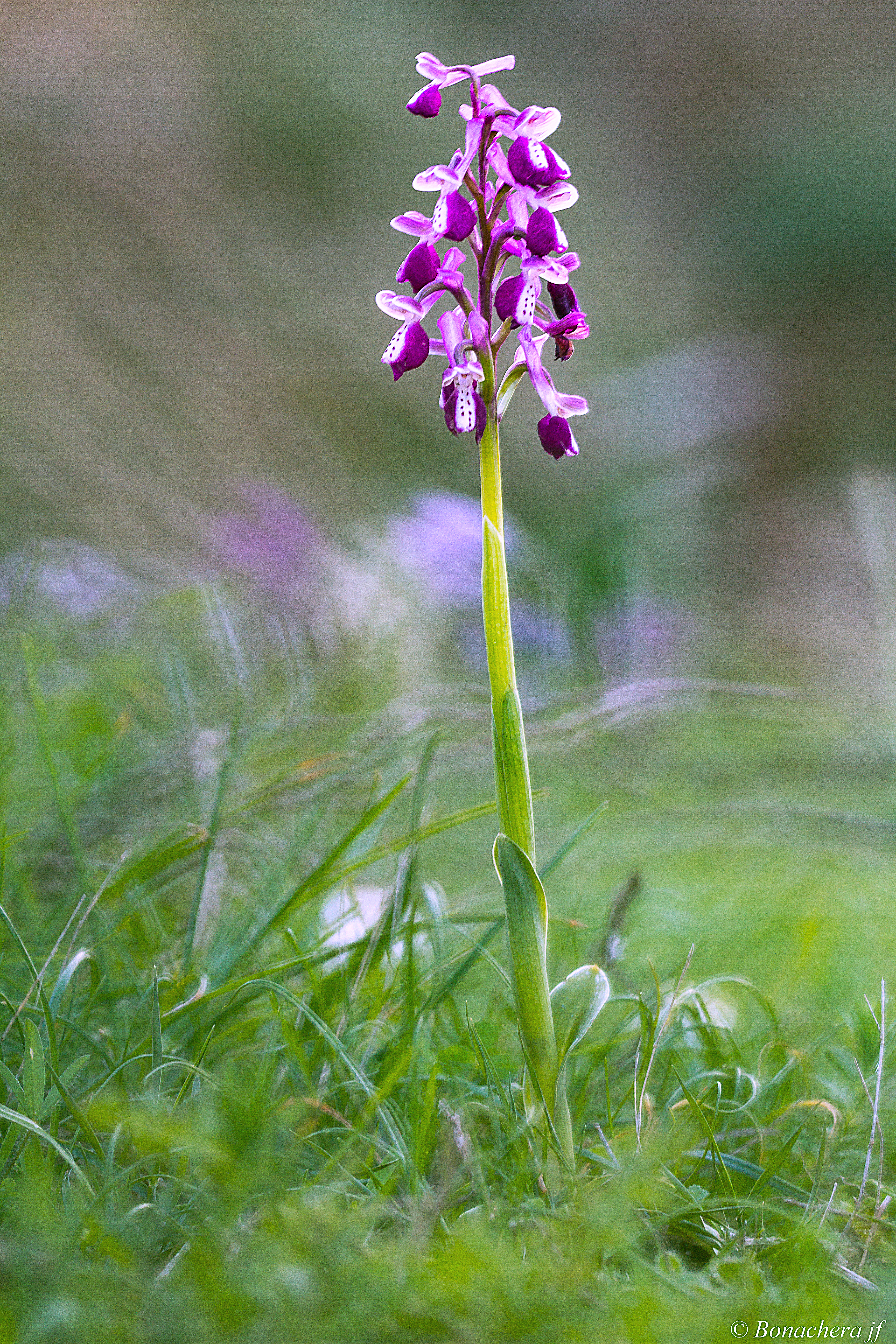 Anacamptis longicornu, variété classique rose